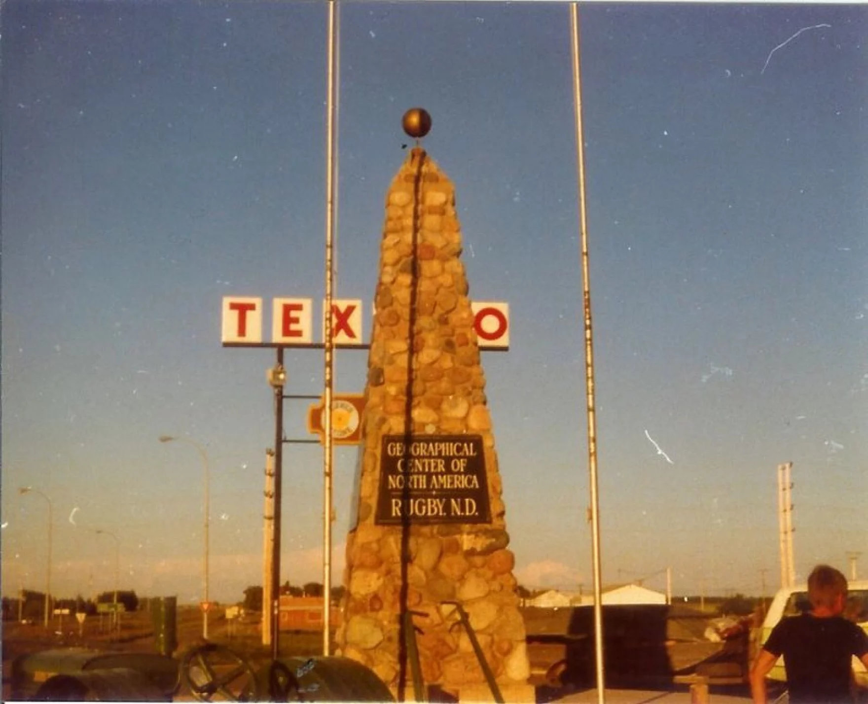 Rugby ND obelisk, geographical center of north america